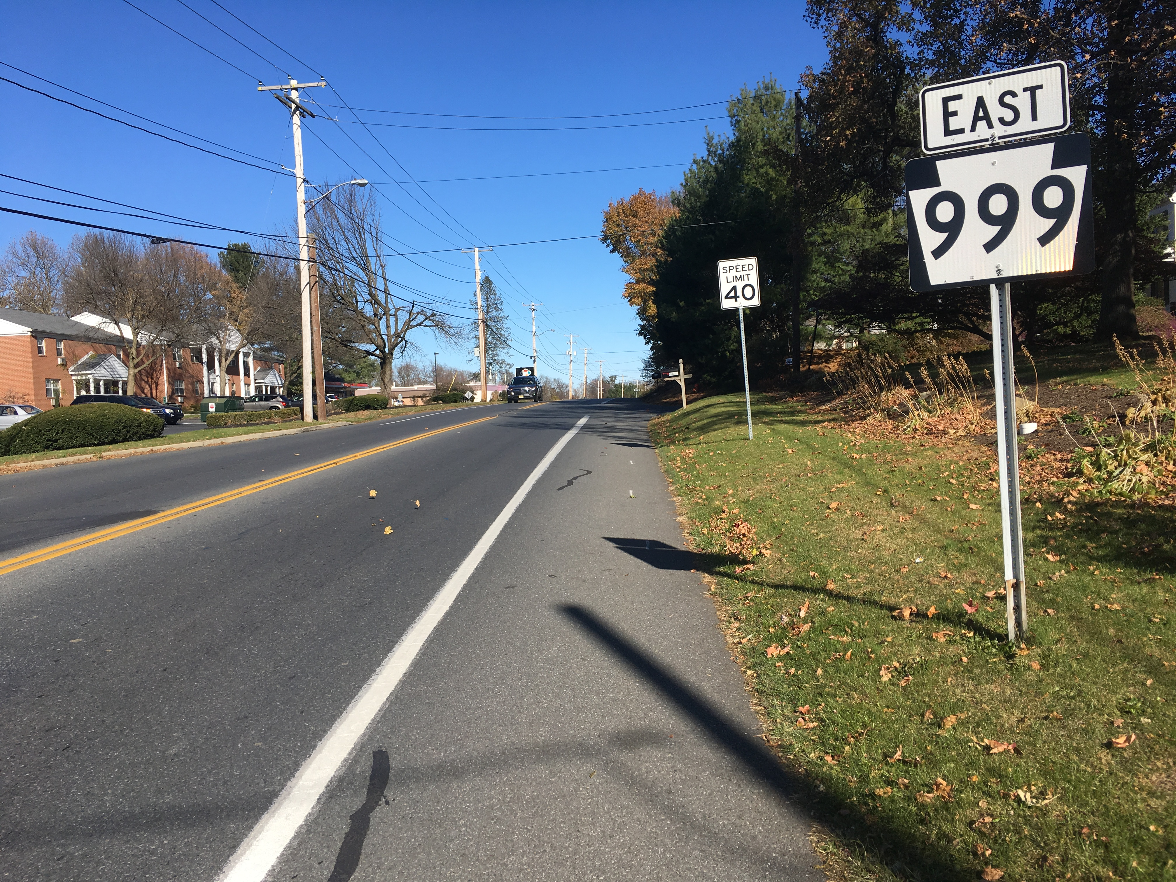 Eastbound Pennsylvania Route 999 (Millersville Pike) past the intersection with Schoolhouse Road/Roselawn Avenue in Lancaster Township, Pennsylvania